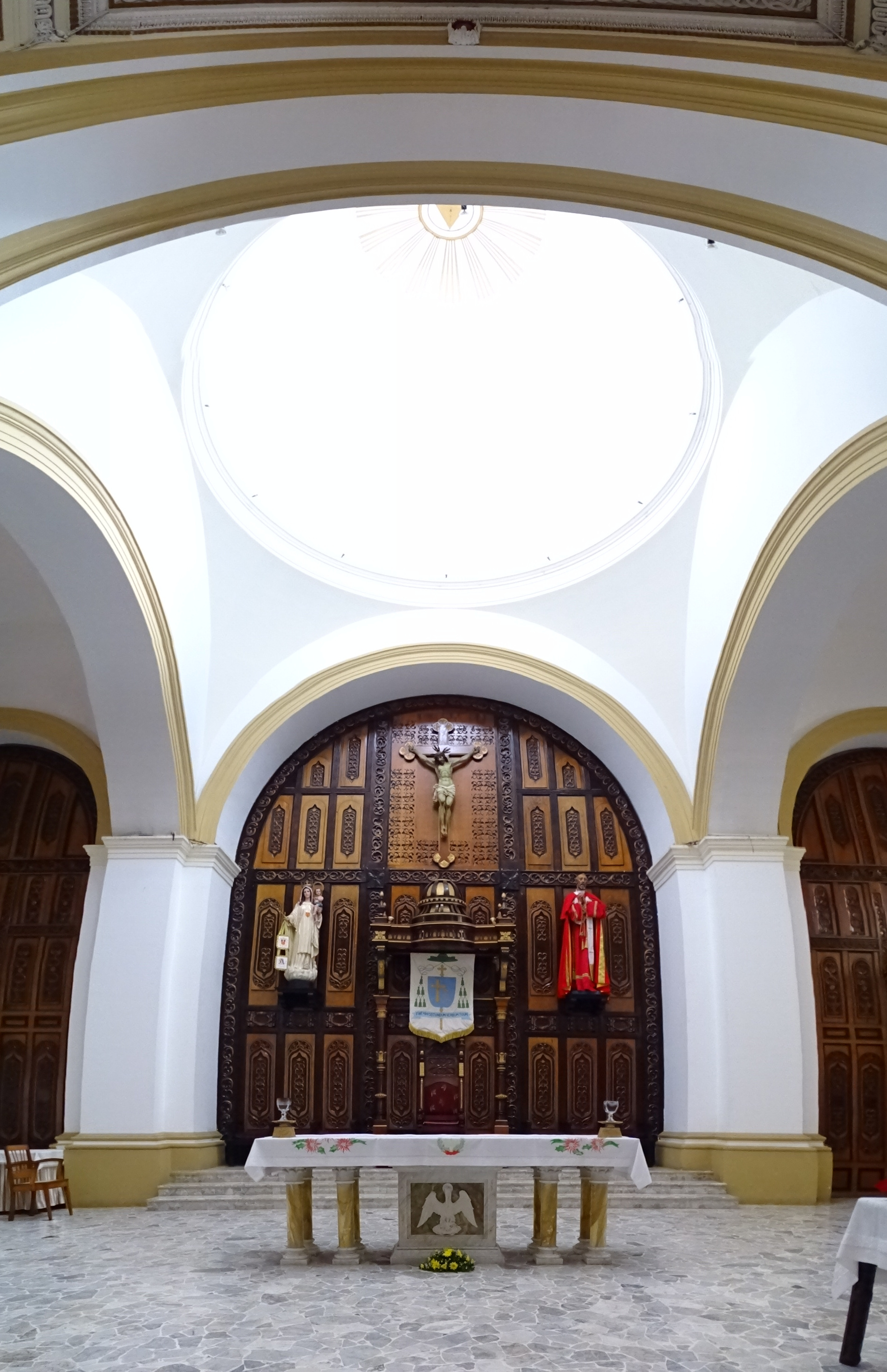 Vertical Panorama of Cathedral Nave - Matagalpa - Nicaragua